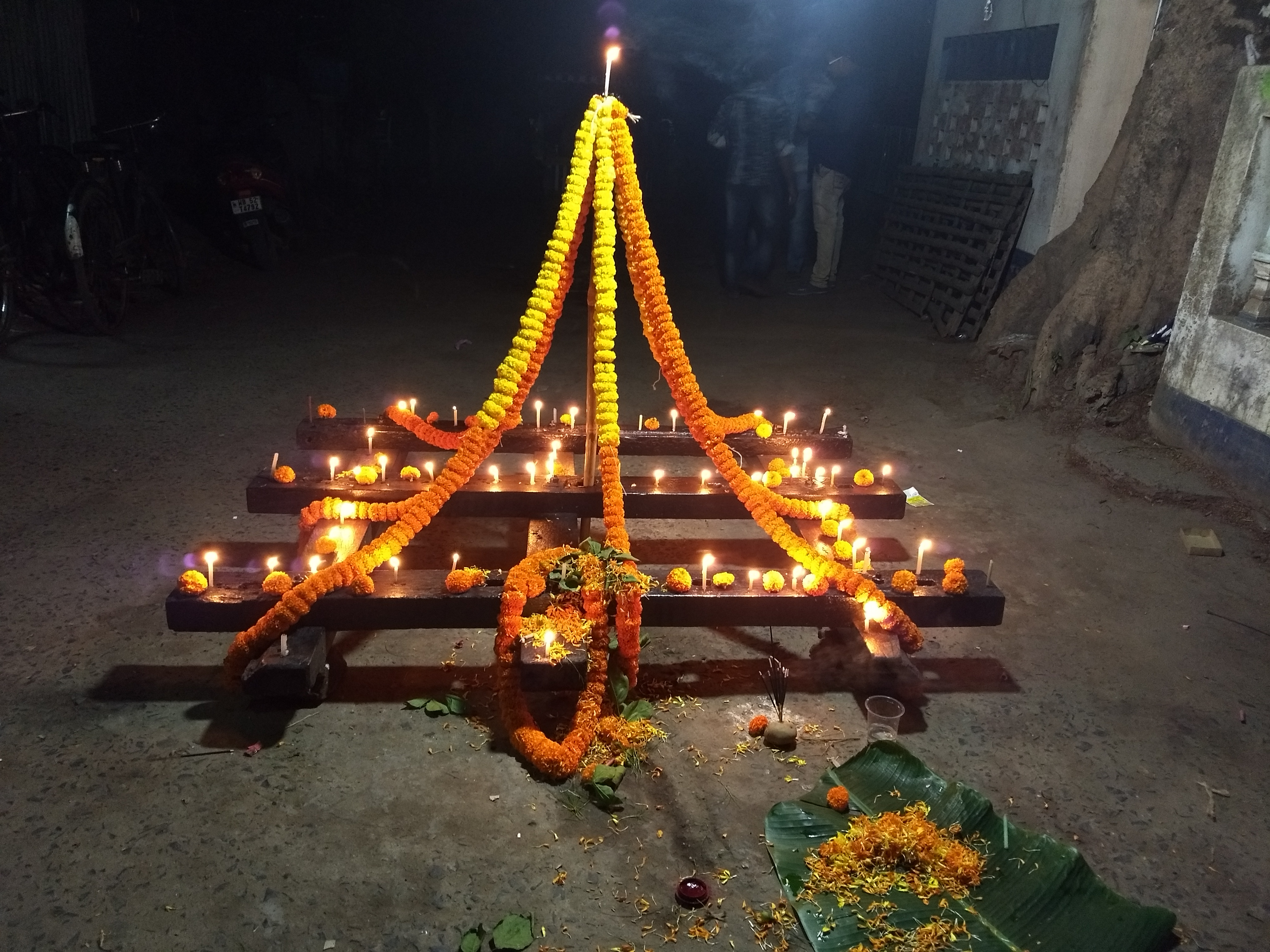 Pata_Puja, Shakta Ras Yatra, Nabadwip